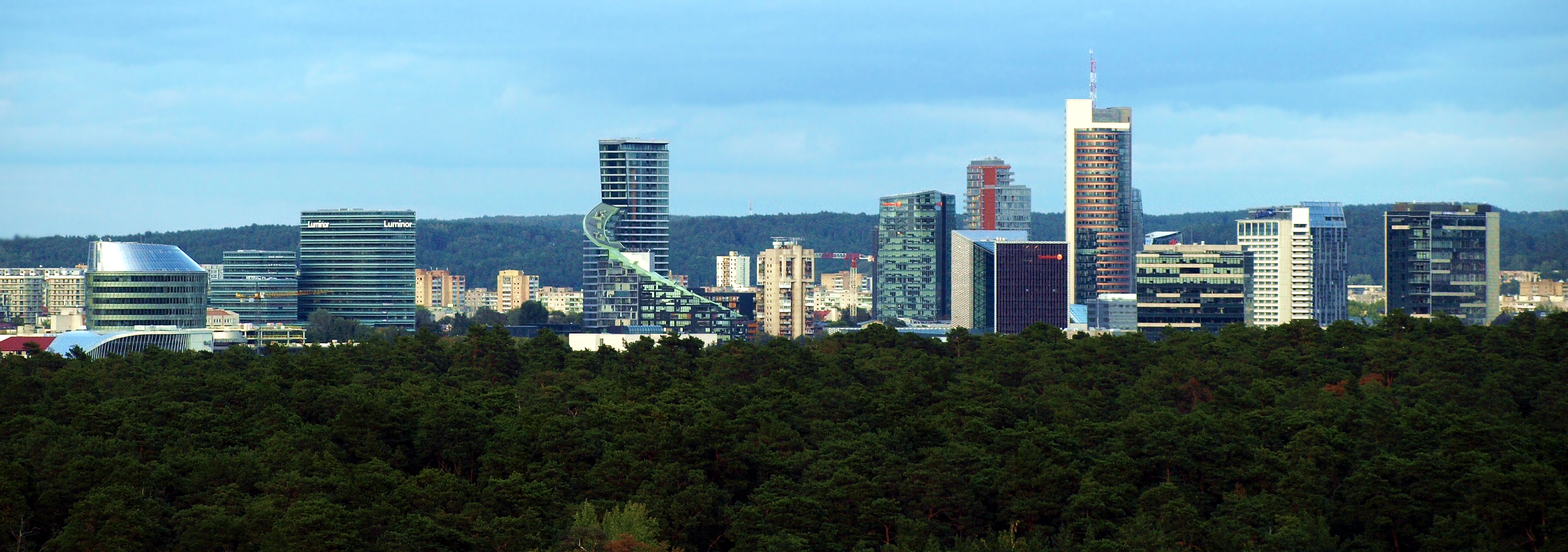 Vilnius skyline, 2019 09